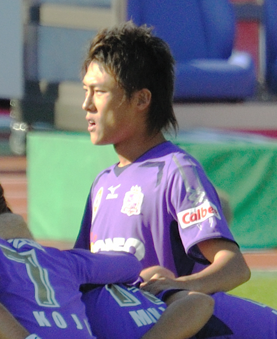 Sanfrecce Hiroshima - team huddle